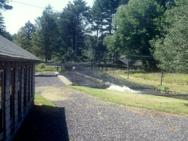 Raceways for trout farming at the American Fish Culture Company in Carolina, Rhode Island